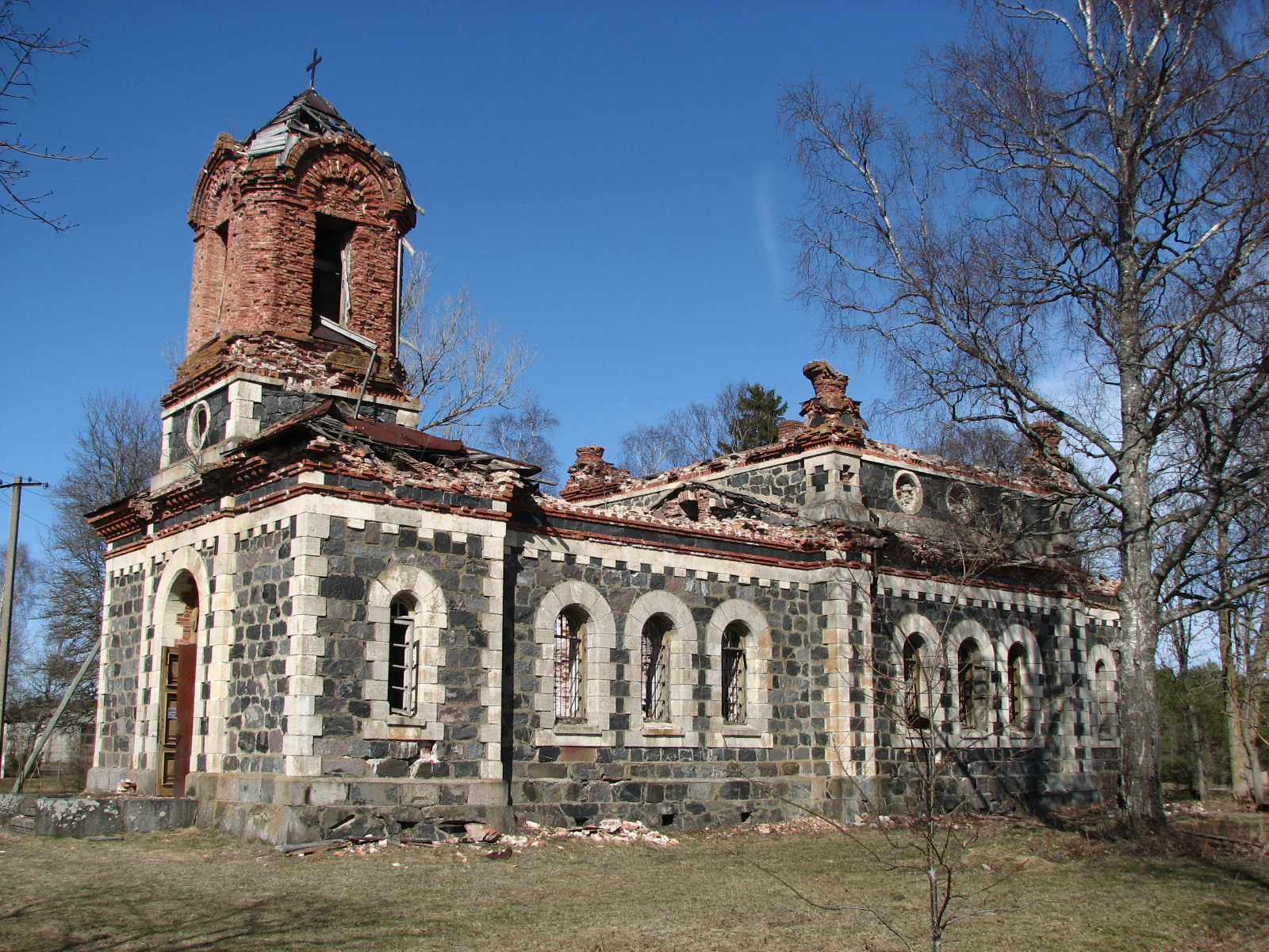 Uue-Risti church